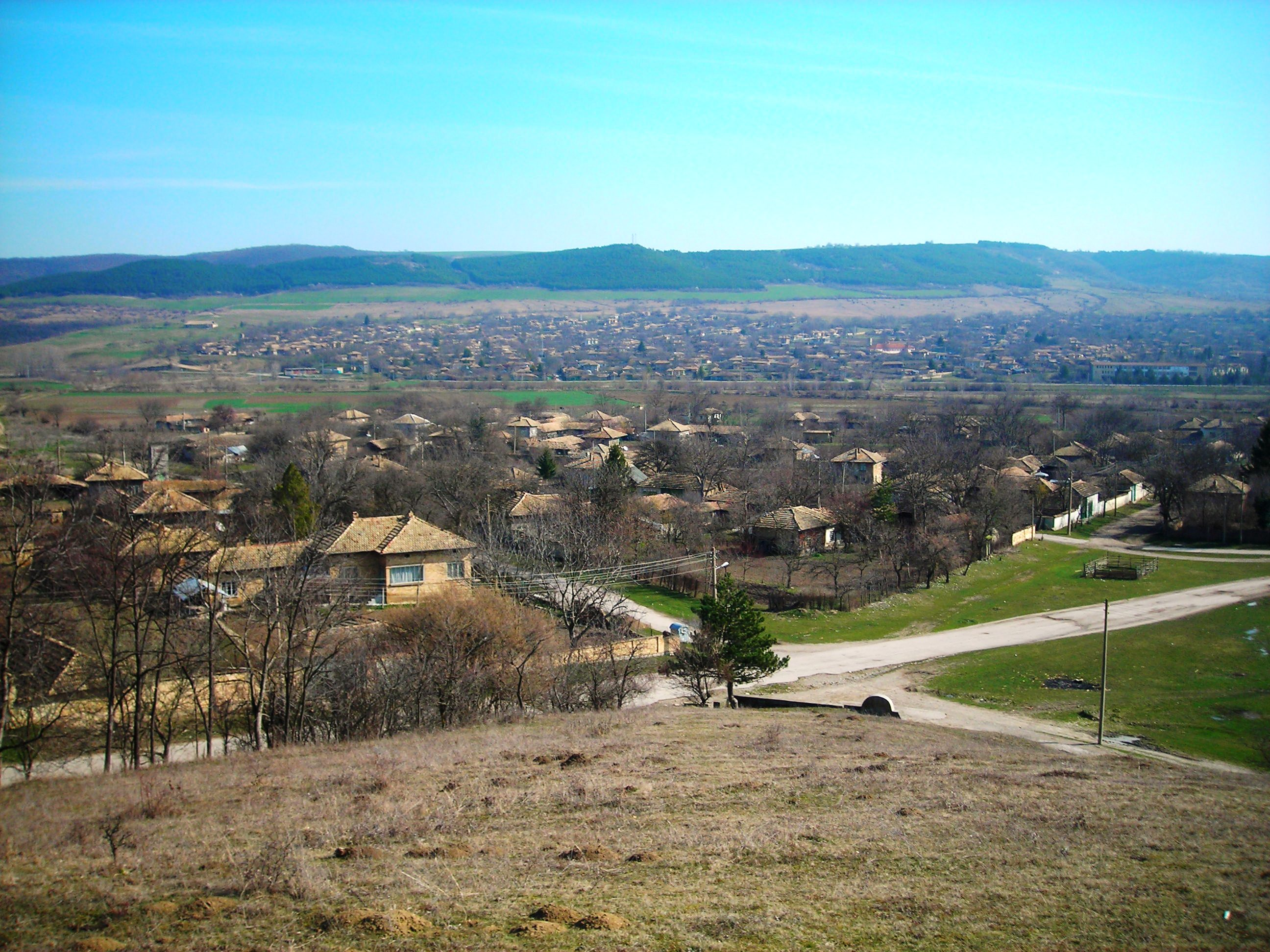 View towards village Sadina, Popovo Municipality, Bulgaria